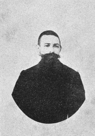 Emmanouil Generalis (1860-1943): Greek scholar and teacher